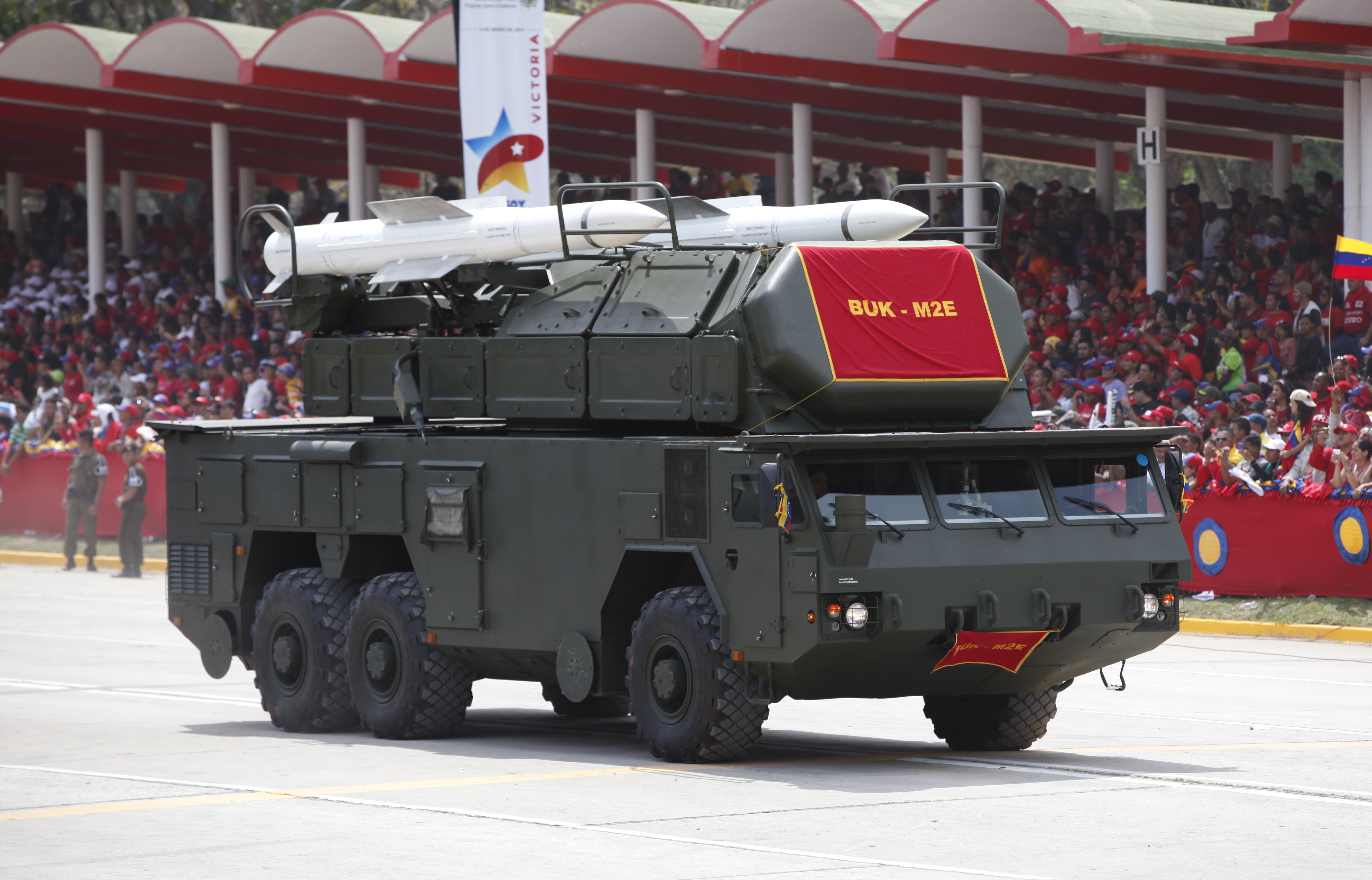 BUK-M2E in Caracas, Venezuela during the commemoration of Hugo Chavez's death.